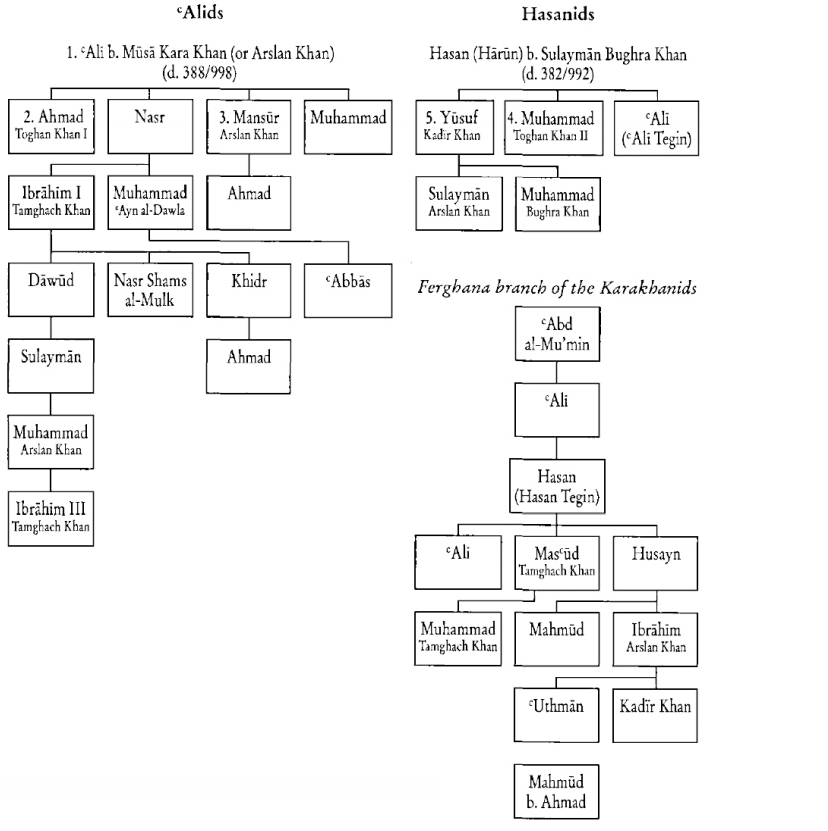 Heads of the Karakhanid dynasty, before the division into two states